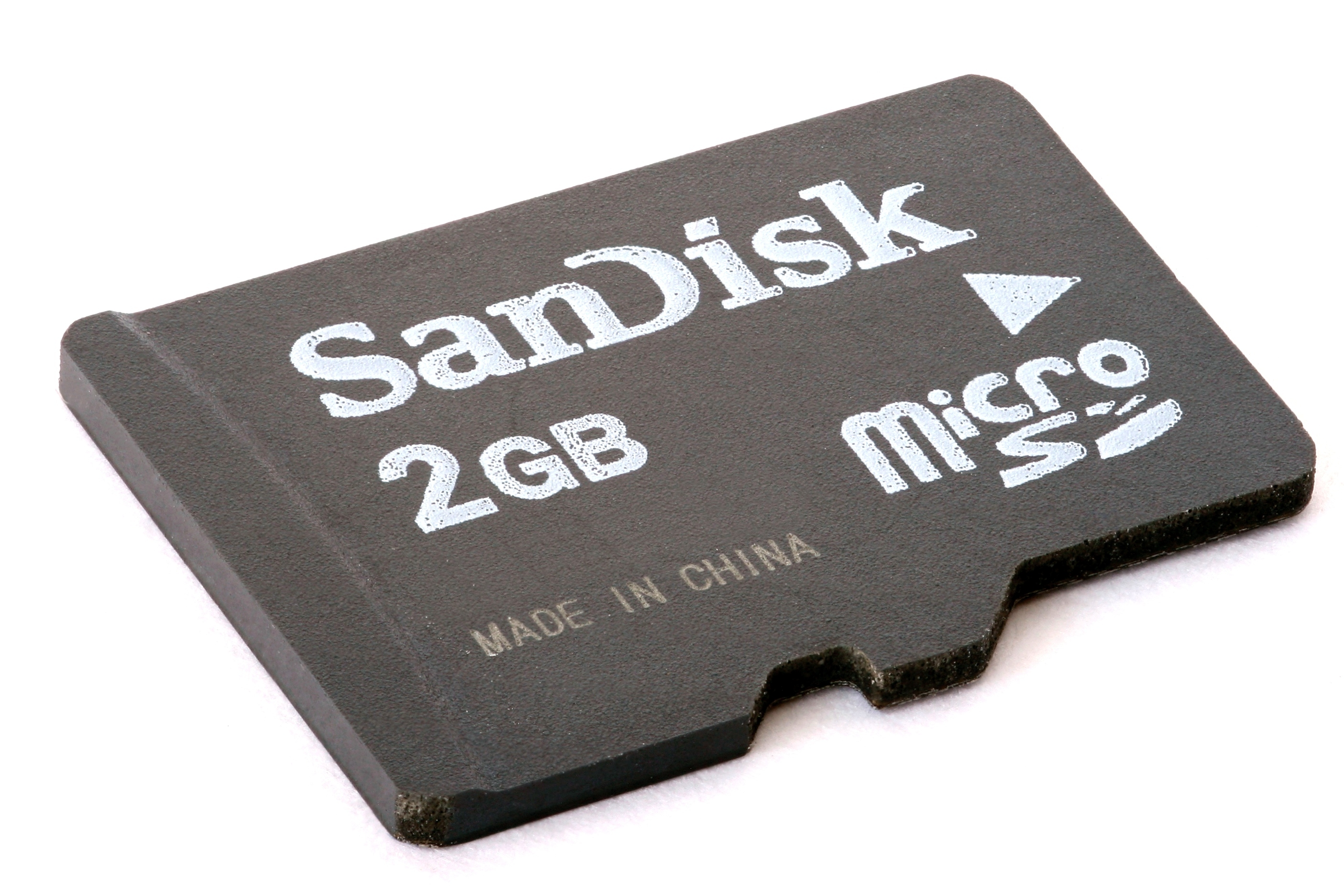 2 Gigabyte MicroSD (TransFlash) card. Photo created from 20 single frames using Focus stacking.